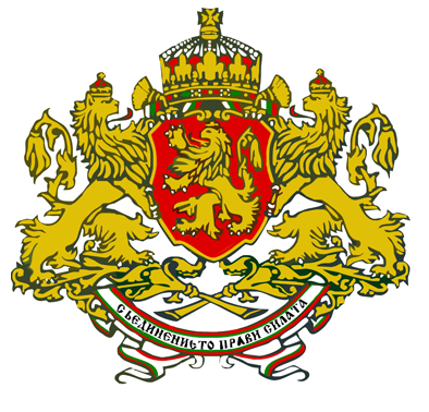 Coat of arms of Kingdom of Bulgaria (1927-1946)